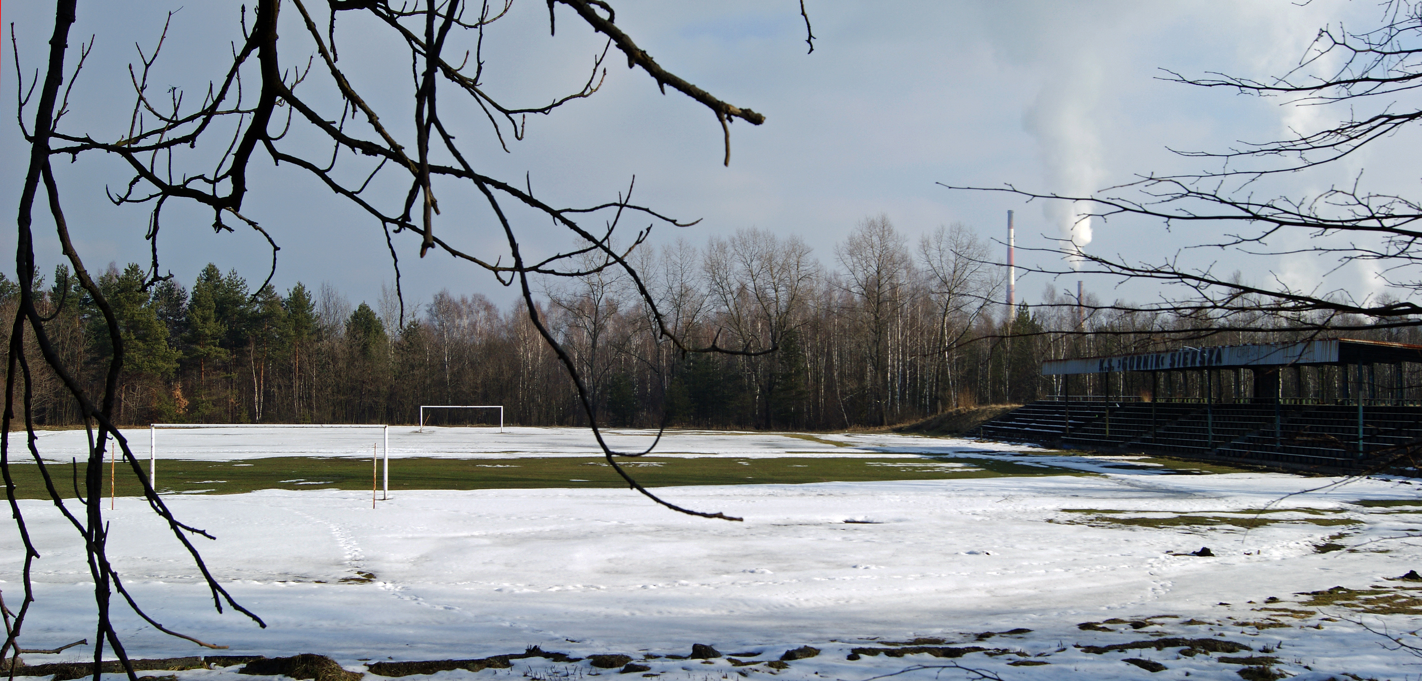 SC Górnik Siersza Stadium, Grunwaldzka street, Siersza, City of Trzebinia, Chrzanów County, Poland